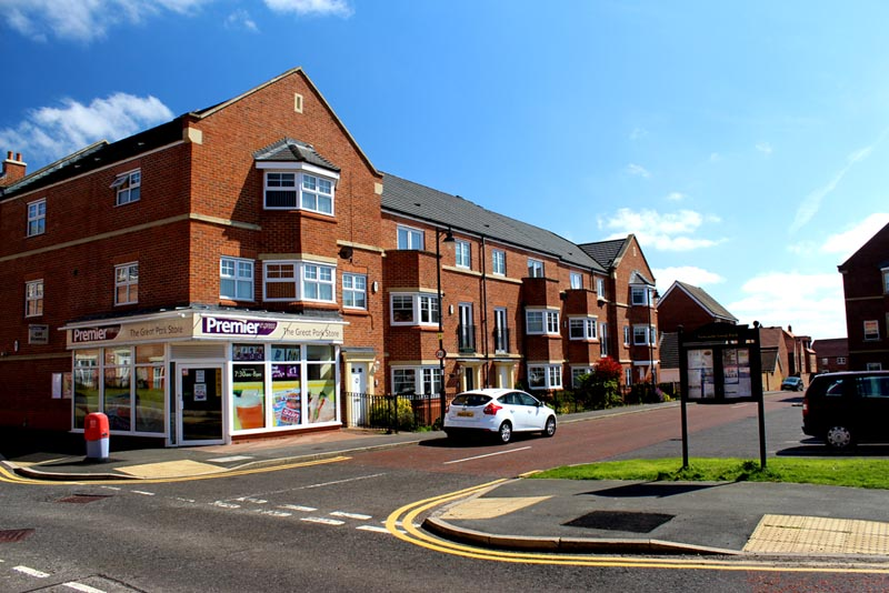 Shop within the Melbury development of Newcastle Great Park